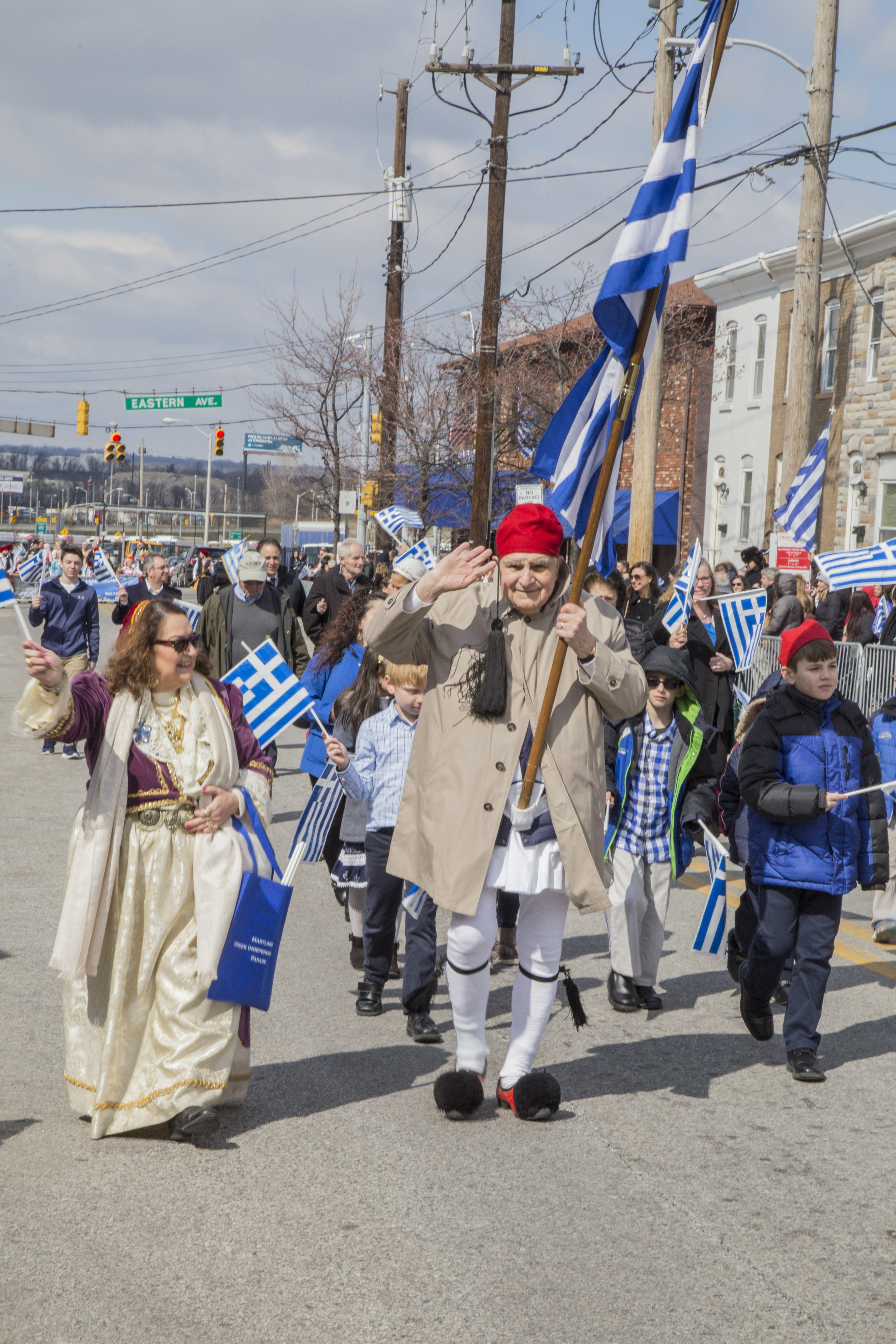 Photo by Katie Simmons-Barth 2018 Greek Independence Day Parade Baltimore